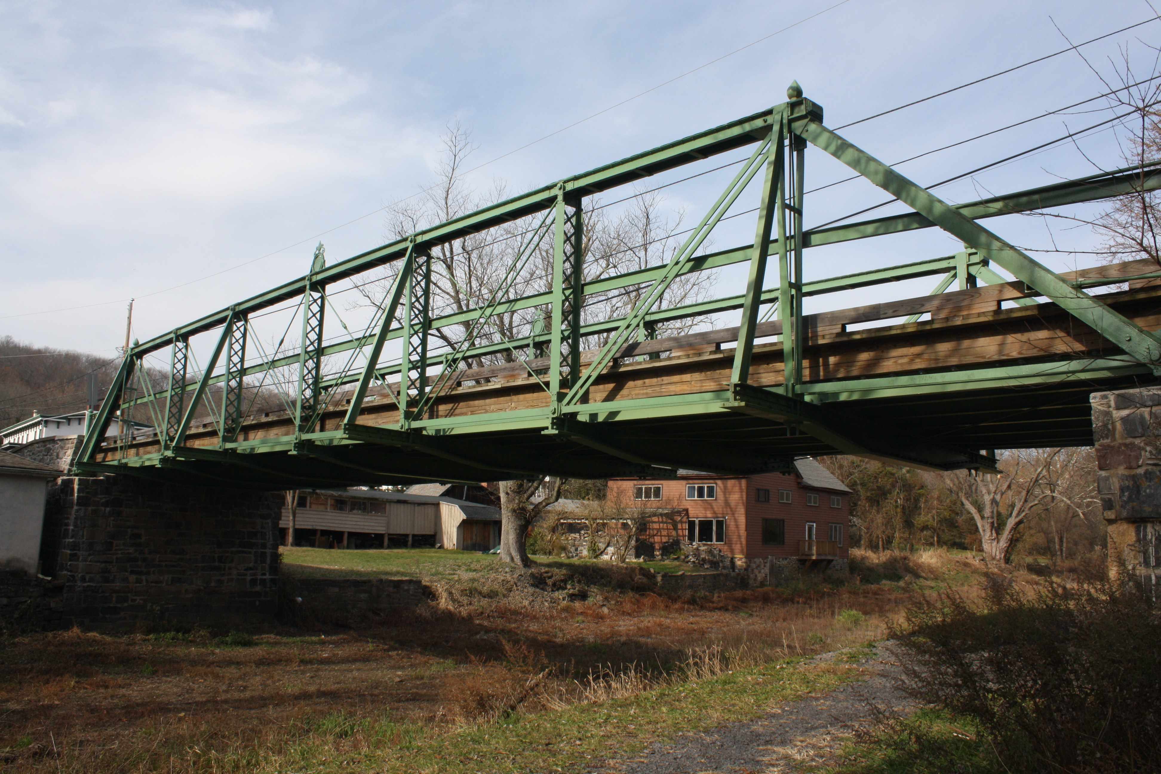 Bridge in Tinicum Township, a historic Pratt pony truss bridge over Pennsylvania canal located at Point Pleasant in Tinicum Township, Bucks County, Pennsylvania. Object location40° 25′ 23.88″ N, 75° 03′ 55.08″ W